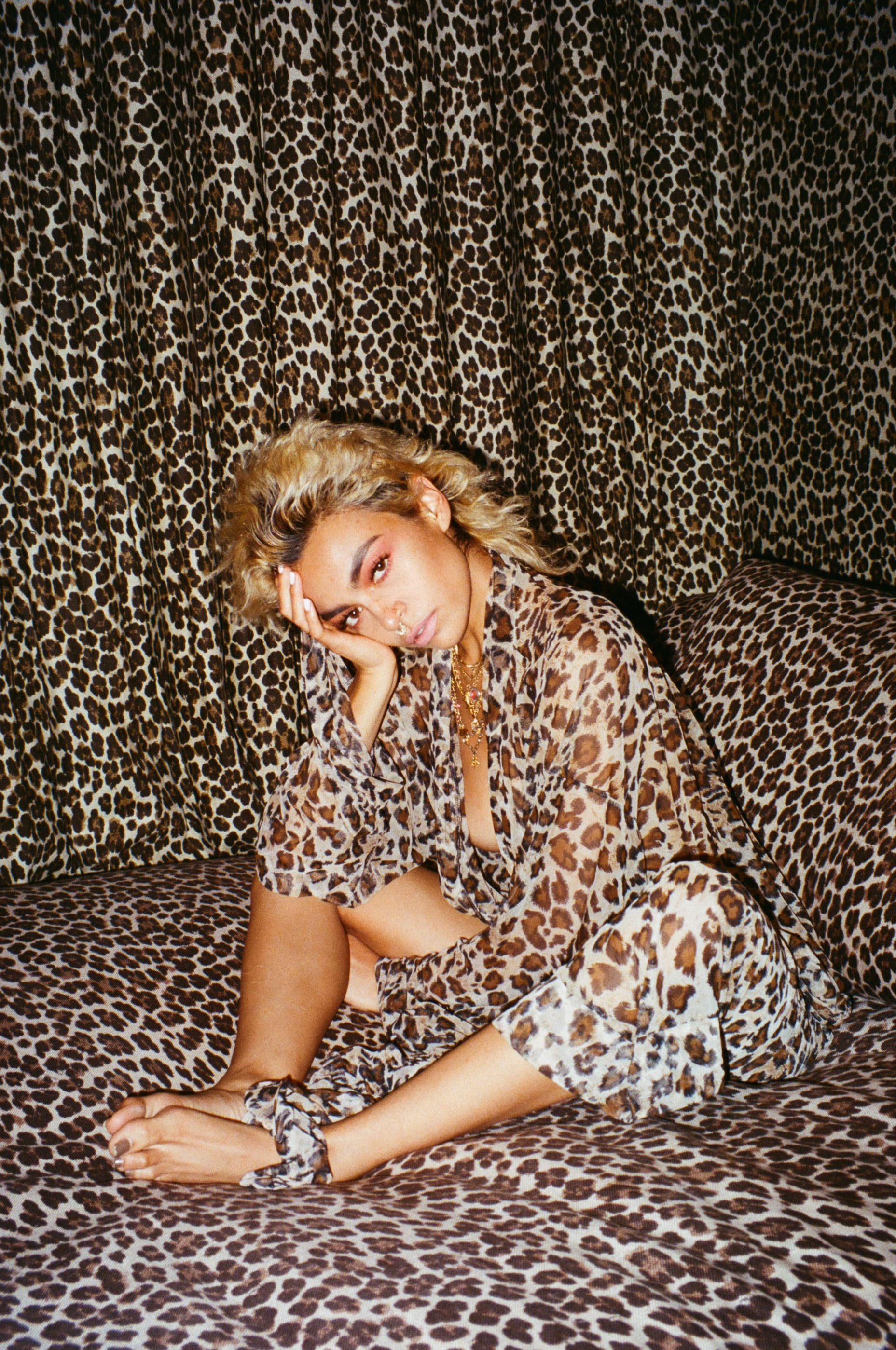 American Afro-Latina singer QUIN